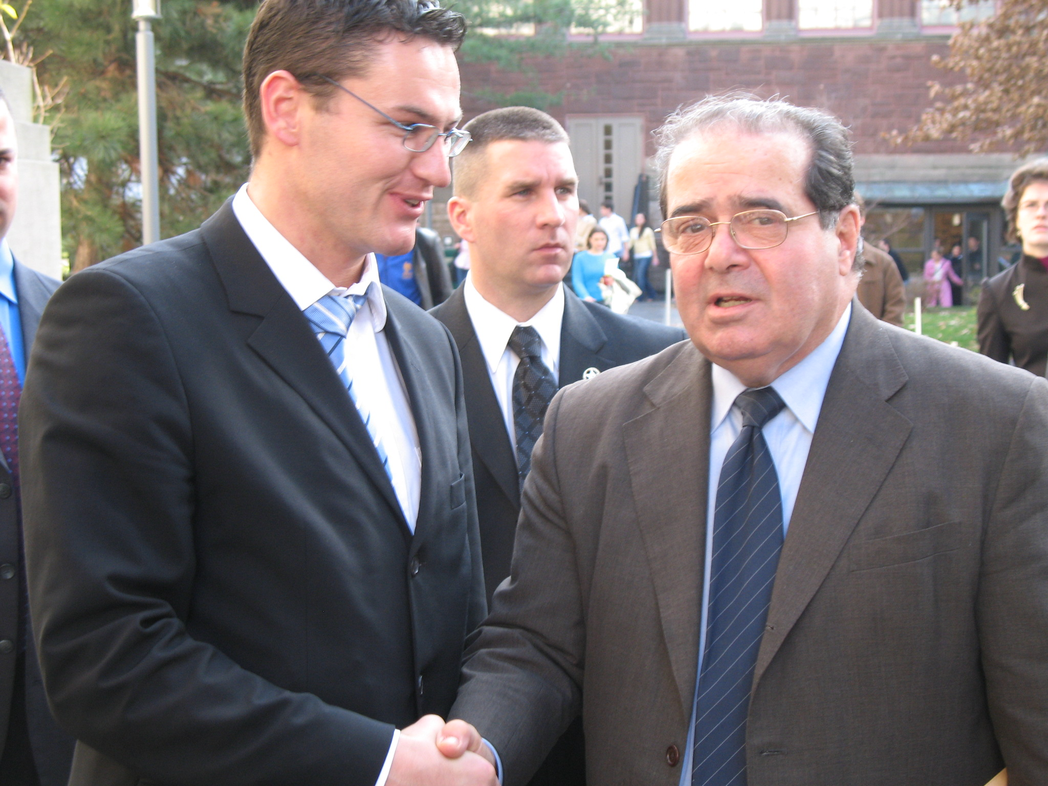 Justice Antonin Scalia and Jurij Toplak of European Election Law Association at the Harvard Law School on November 30, 2006.